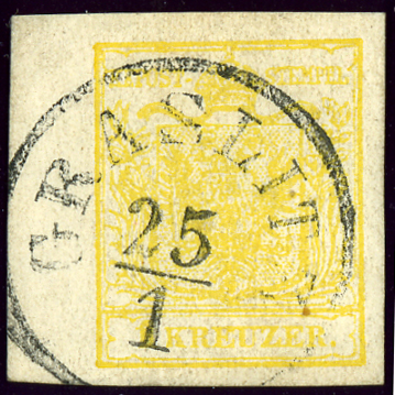 Austrian KK stamp, 1 kreuzer, issue 1850, Machine paper, left sheet margin, cancelled at GRASLITZ, Bohemia, Mueller RS-f, 8 Points